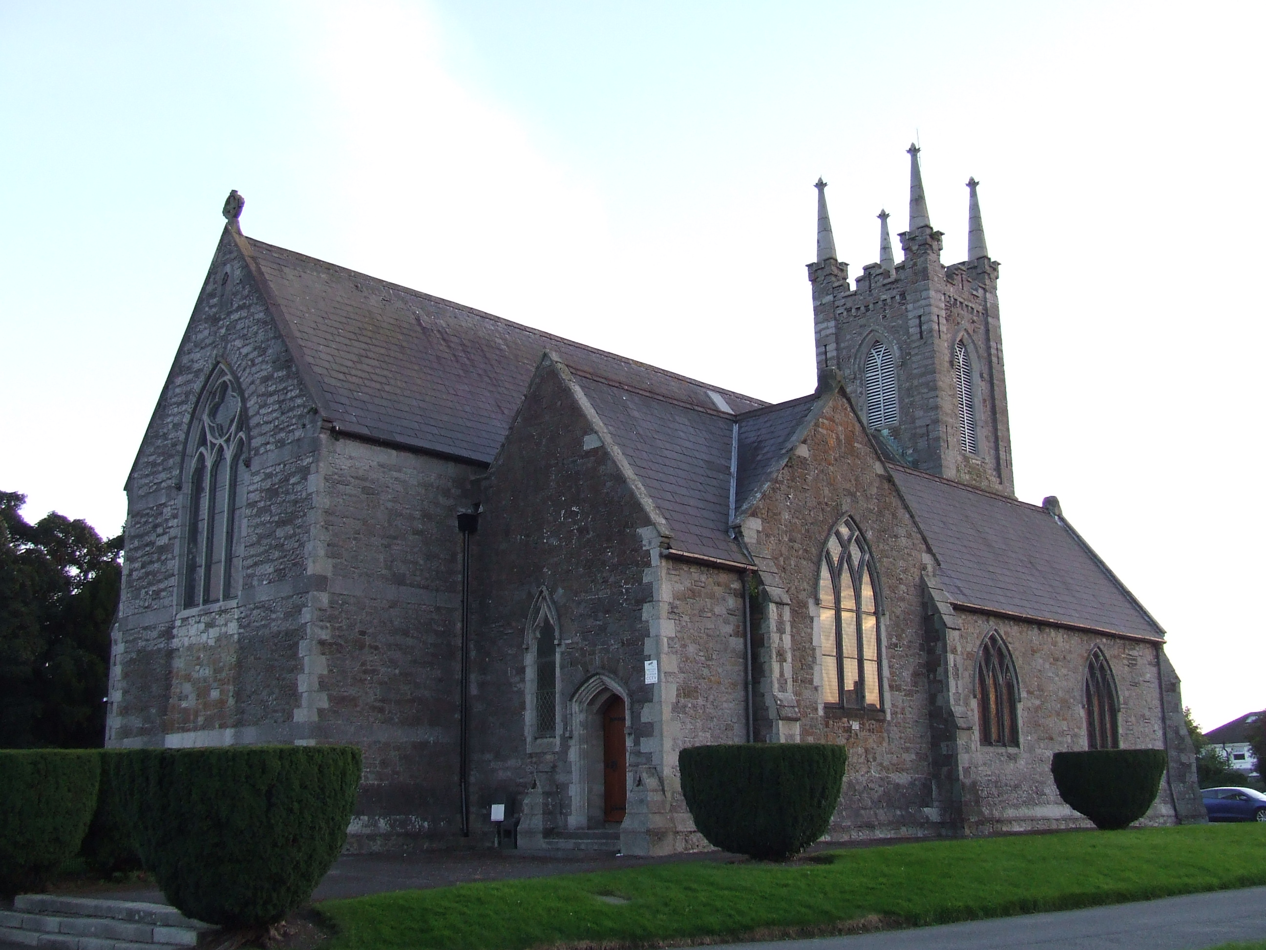 St Brigit's church, property of the Church of Ireland, in the village of Castleknock. Sunset, September 2012.